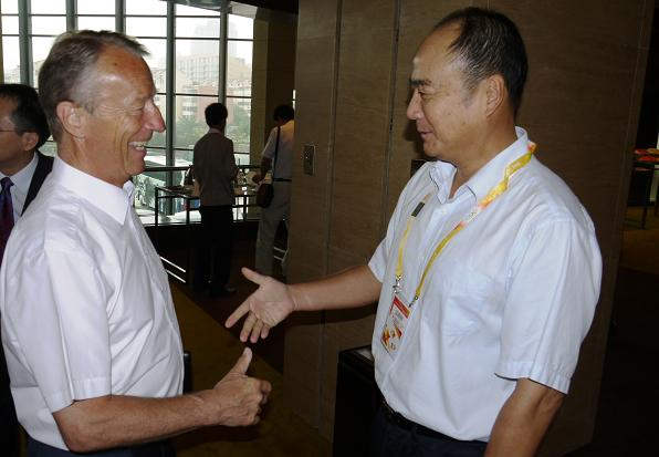 IOC member Gerhard Heiberg greets former BOCOG vice president Wang Wei. (ATR/Panasonic: Lumix)